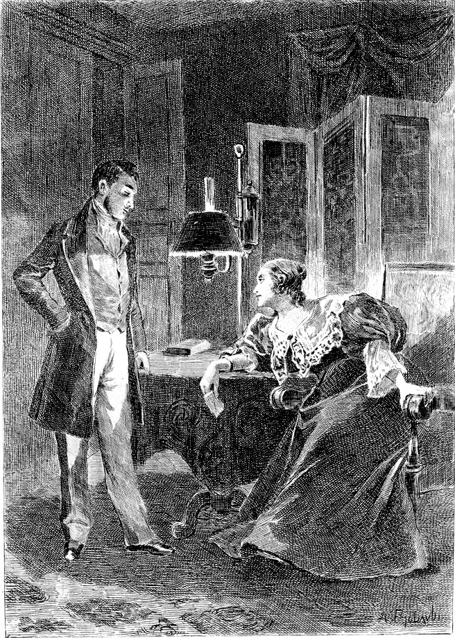 Title page of Honoré de Balzac's The Princess of Cadignan (1839).